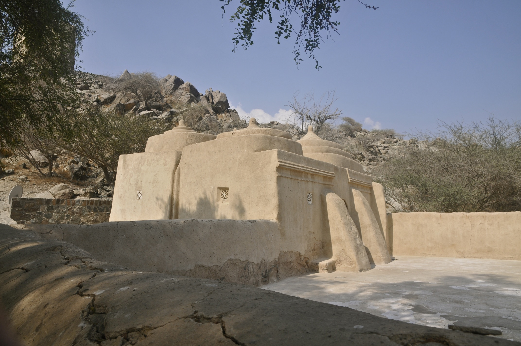 Al Bidya Mosque in Fujairah, near Khor Fakkan, UAE; dated since y. 1446, restorated in y. 2000.